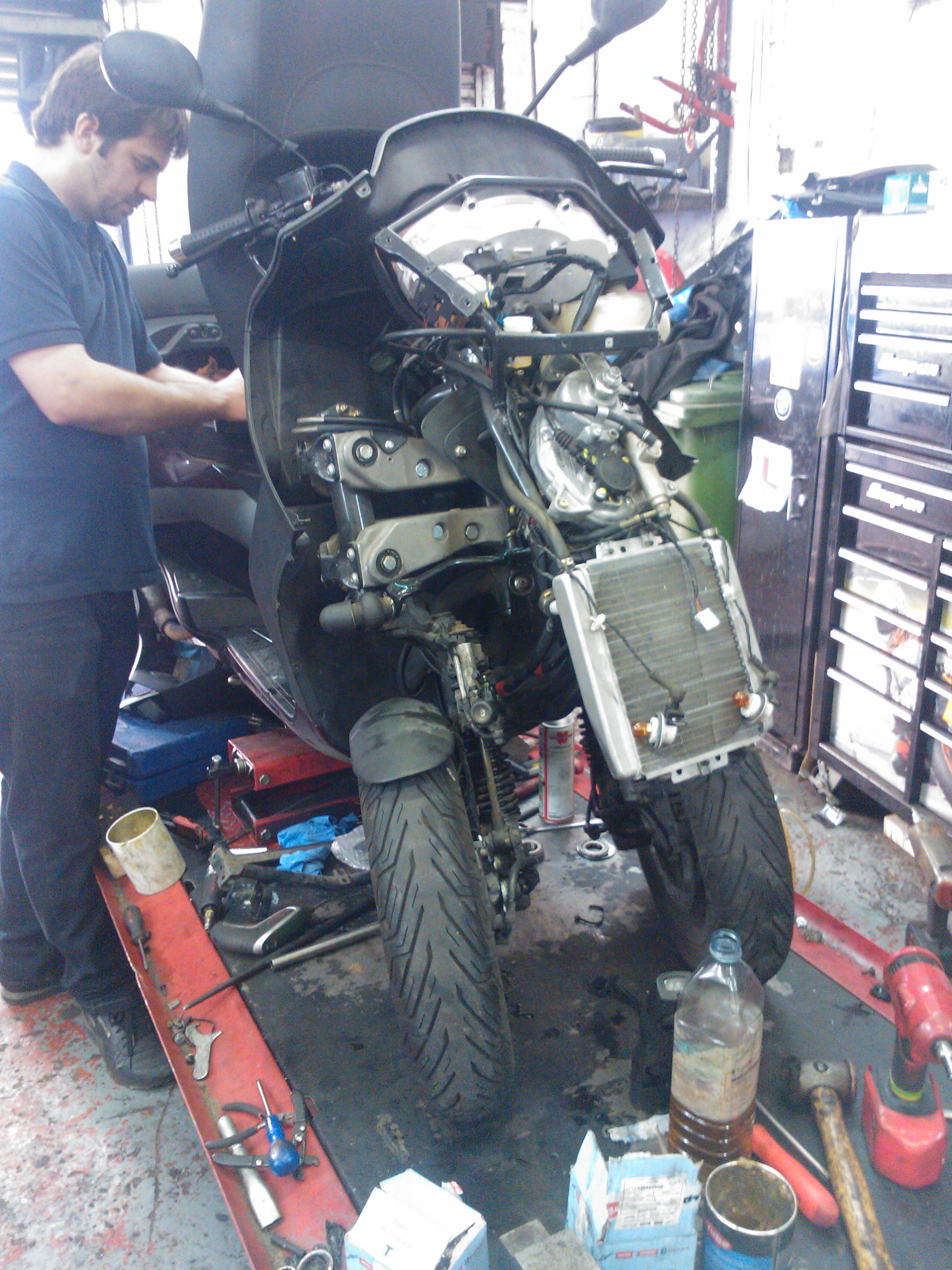 A Piaggio certified engineer services the front suspension of an Mp3, the iconic Italian three-wheel scooter. Photo was taken in Shorditch, East-London. Normally enclosed by plastic panels, the Piaggio MP3's suspension must be exposed for servicing. In this shot, a bike is having it's steering-bearings changed for it's 10,000km service.